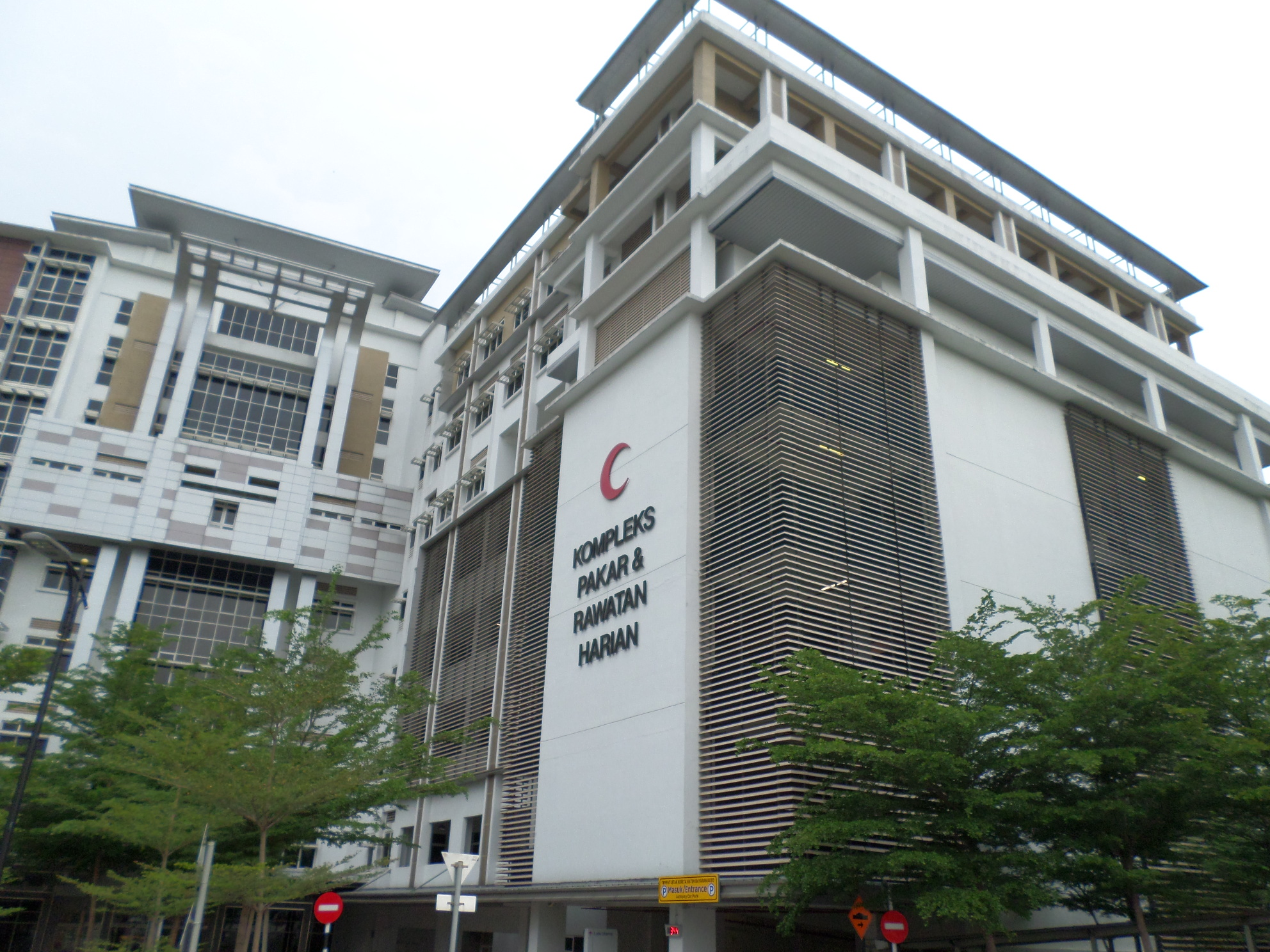 Kuala Lumpur Hospital, Kuala Lumpur, MalaysiaBahasa Melayu: Hospital Besar Kuala Lumpur, Kuala Lumpur, Malaysia